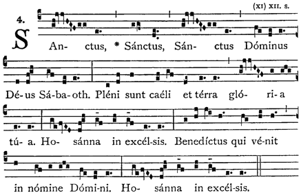 Relation to Perluigi's Missa Brevis Are noticable